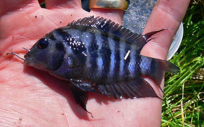 Archocentrus nigrofasciatus caught in the warm outflow of a coal power plant in a temperate region of Victoria. Photo by Andrew Miller